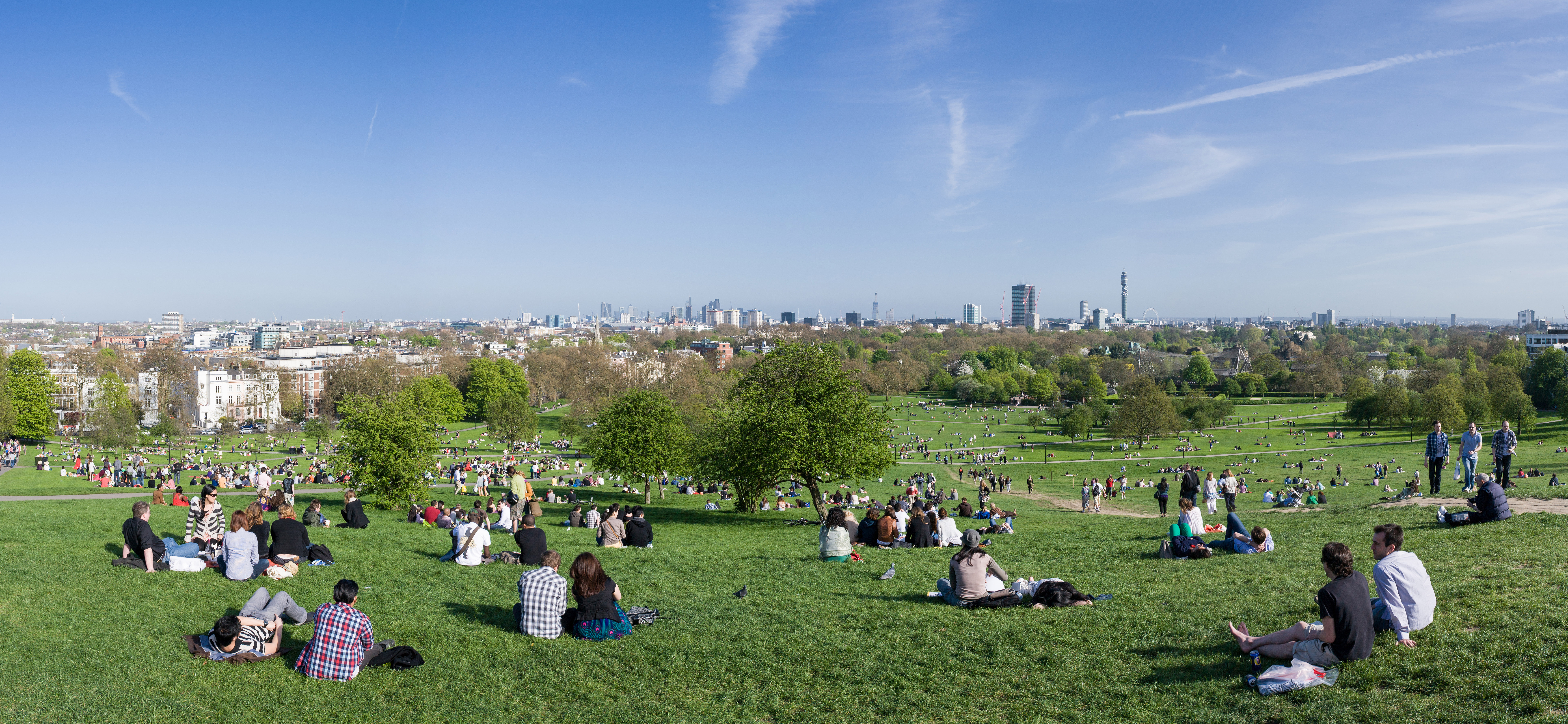 The view from the top of Primrose Hill looking downward towards central London.